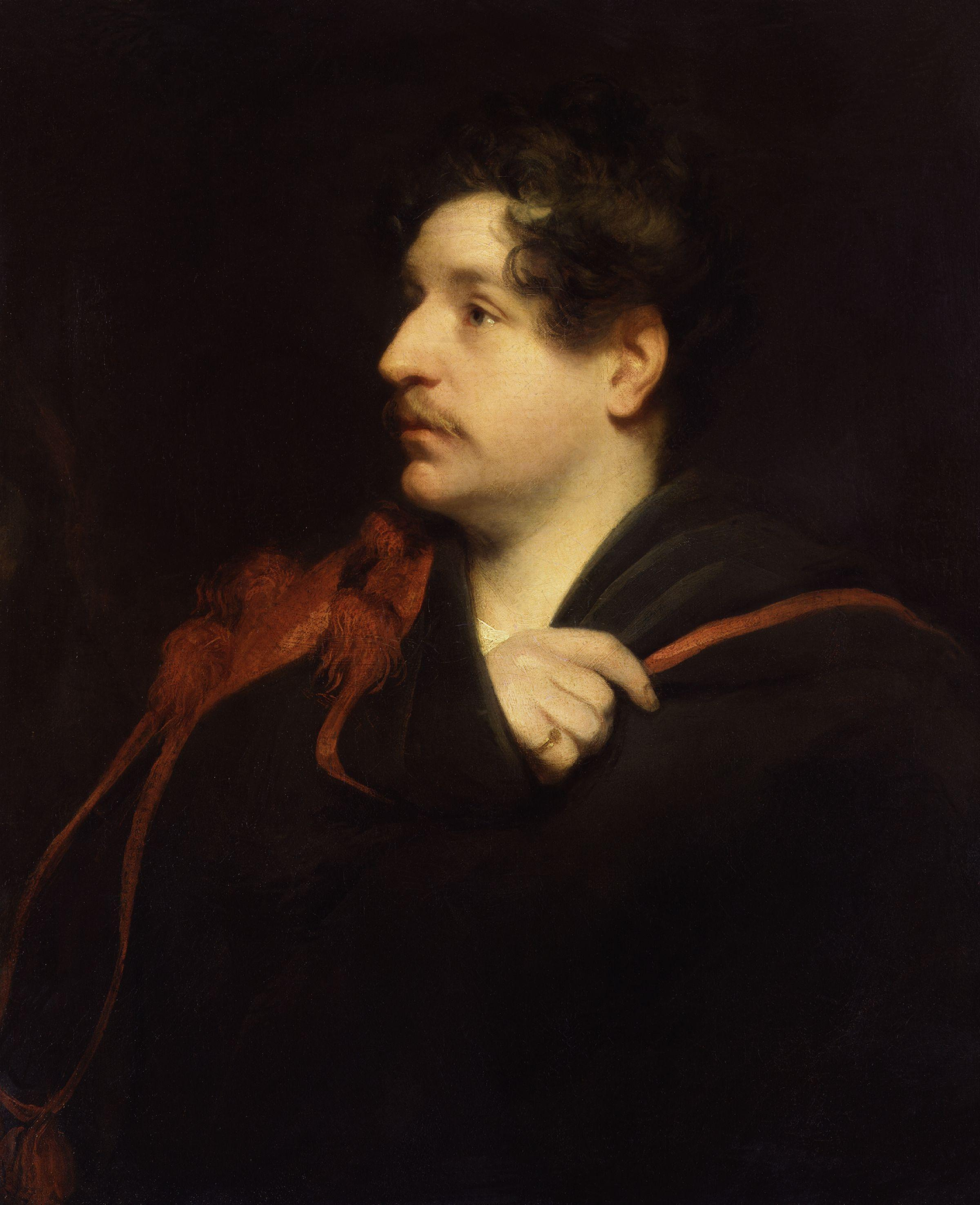 Dixon Denham, by Thomas Phillips (died 1845), given to the National Portrait Gallery, London in 1929. All images in this batch have been confirmed as author died before 1939 according to the official death date listed by the NPG.